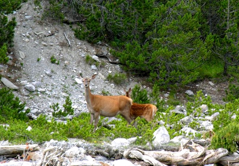 Deer in the Swiss National Park (Graubünden)